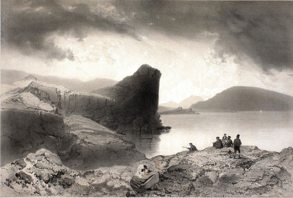 Hoyvík north of Tórshavn, Faroe Islands 1839